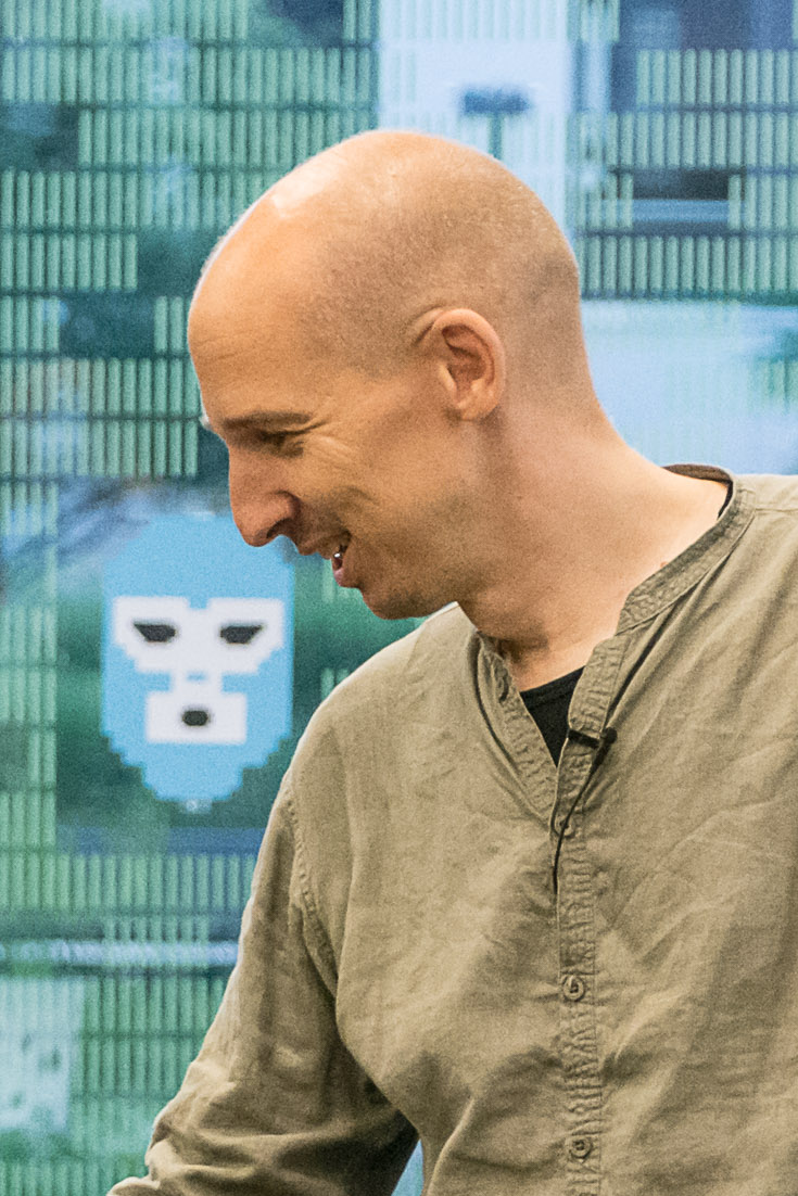 Joachim Scharloth at "Jugend hackt" 2016 (crop)